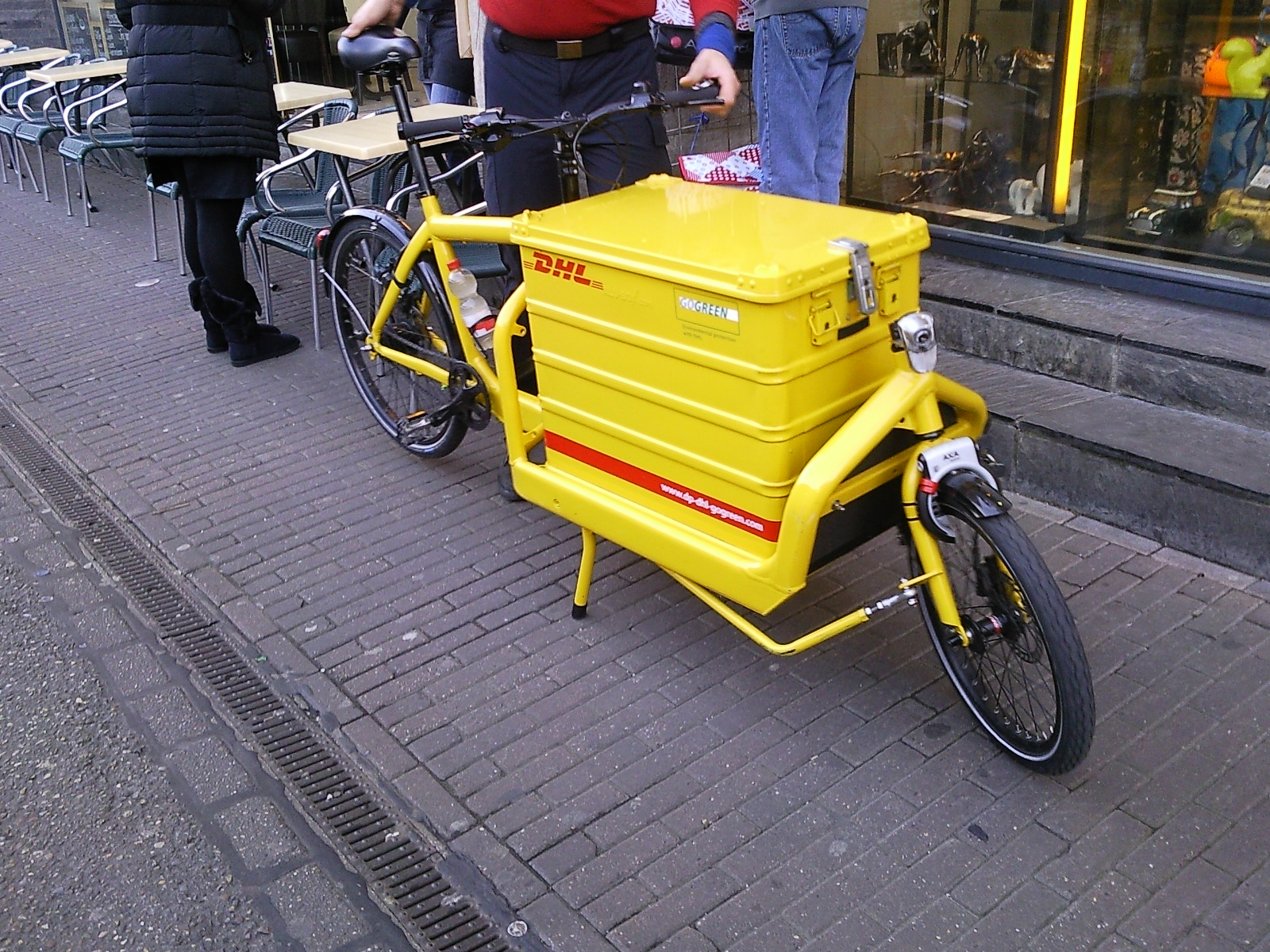 Postal bike in Amsterdam by DHL.